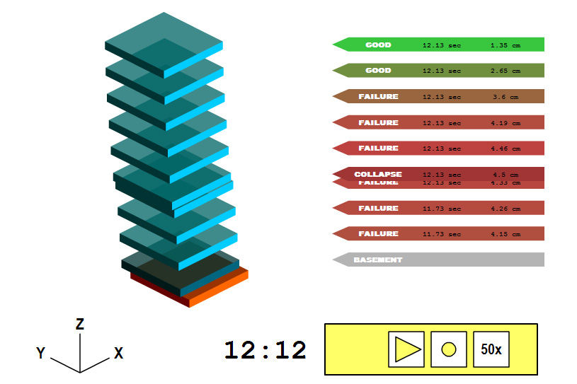 Software called Earthquake Performance Evaluation Tool Online (EPETO) [1] enables various 3-D animated virtual experiments on building models with and without vibration control. Presented here is an animation PrintScreen of a 9-story building model reinforced with a shear viscous isolation system at the moment of crash of its 4th story.